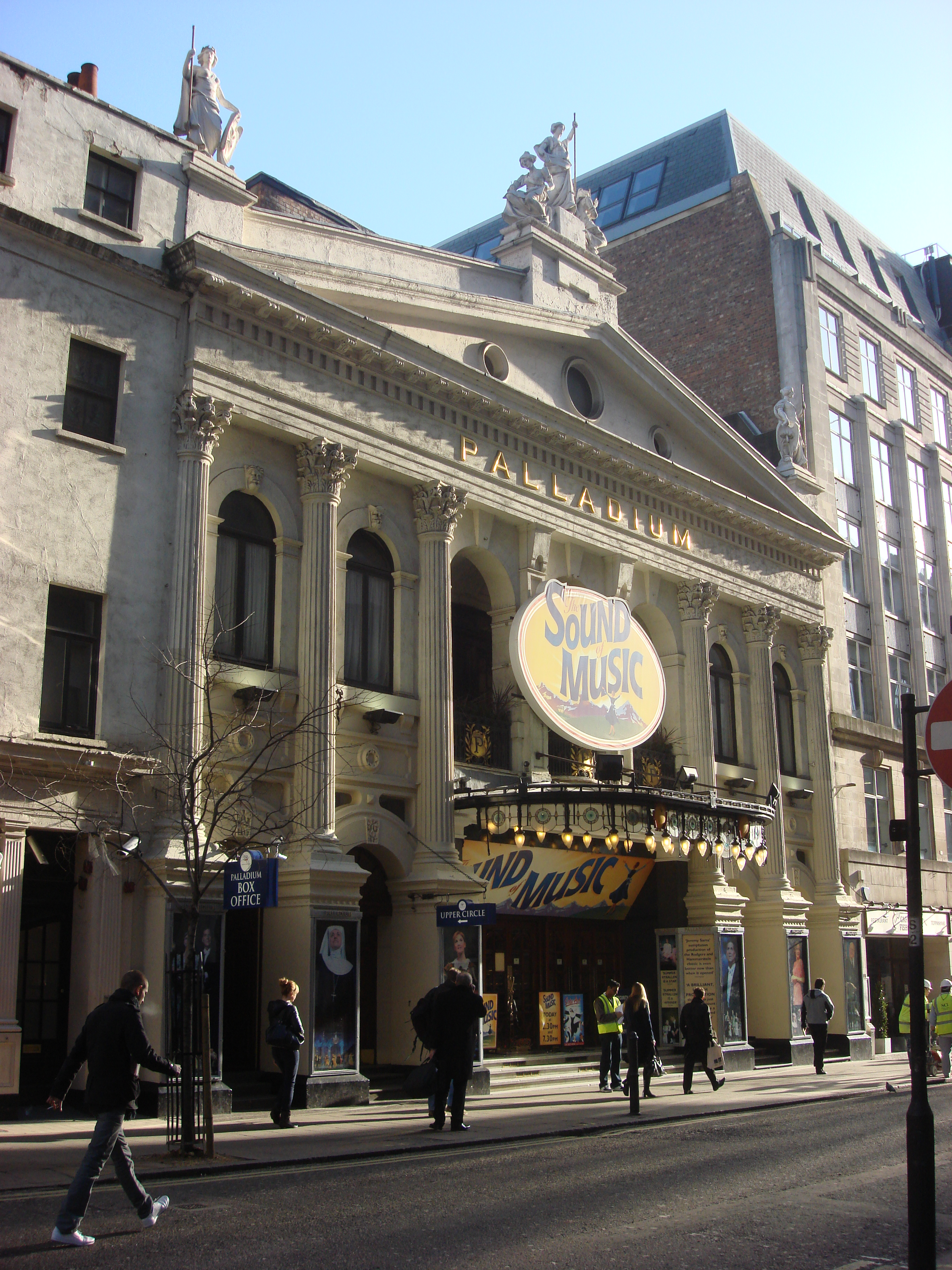 The London Palladium A 2,286 seat Grade II* listed West End theatre designed by Architect Frank Matcham